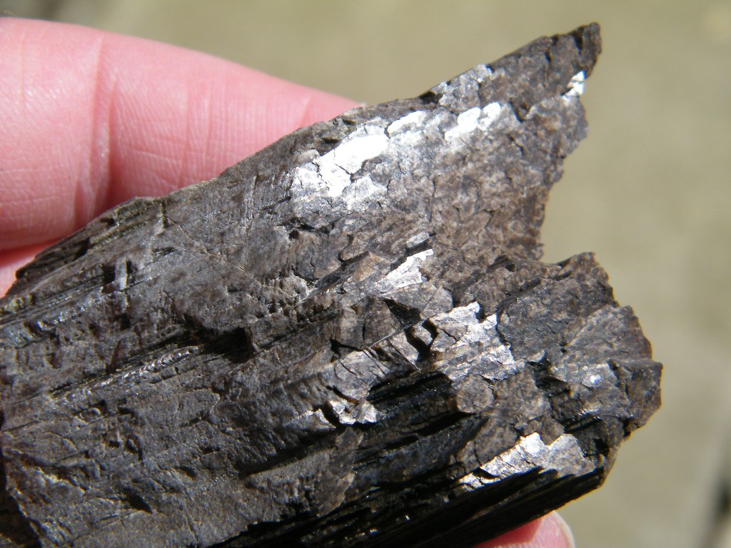 Calcite, variety Anthraconite Dimensions: image 1.75" of the 3" x 2" x 1.5" specimen Locality: Squaw Bay, Alpena County, Michigan, USA Oil-brown anthraconite, a variety of calcite with oil inclusions. Known as "stinkstone" as it smells of oil when struck or broken. Old collection specimen.